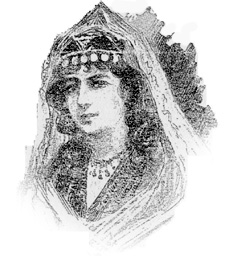 Illustration for the poem Death of Shemaka